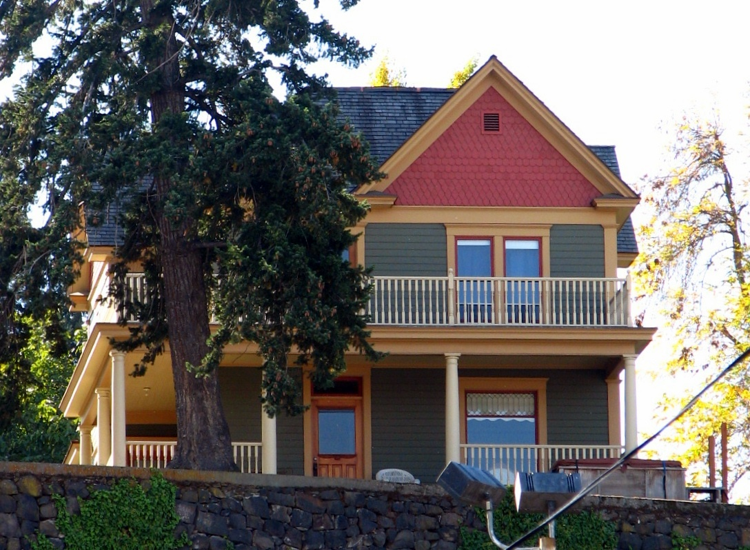 The historic Joseph D. and Margaret Kelly House (built 1908), located at 921 East 7th Street in The Dalles, Oregon, United States, is listed on the US National Register of Historic Places.